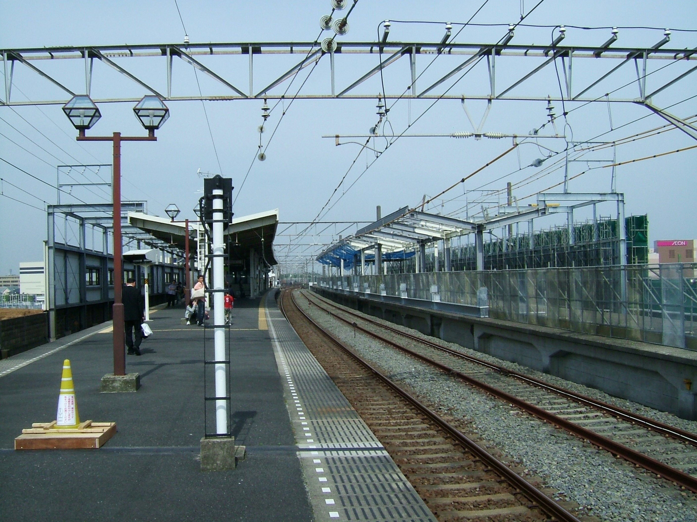 The platforms at Shin-Kamagaya Station, Hokusō Line